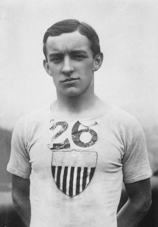 Portrait of John Hayes of the USA during the 1908 Olympic Games in London. Hayes won the gold medal in the Marathon event after the disqualification of Dorando Pietri of Italy.